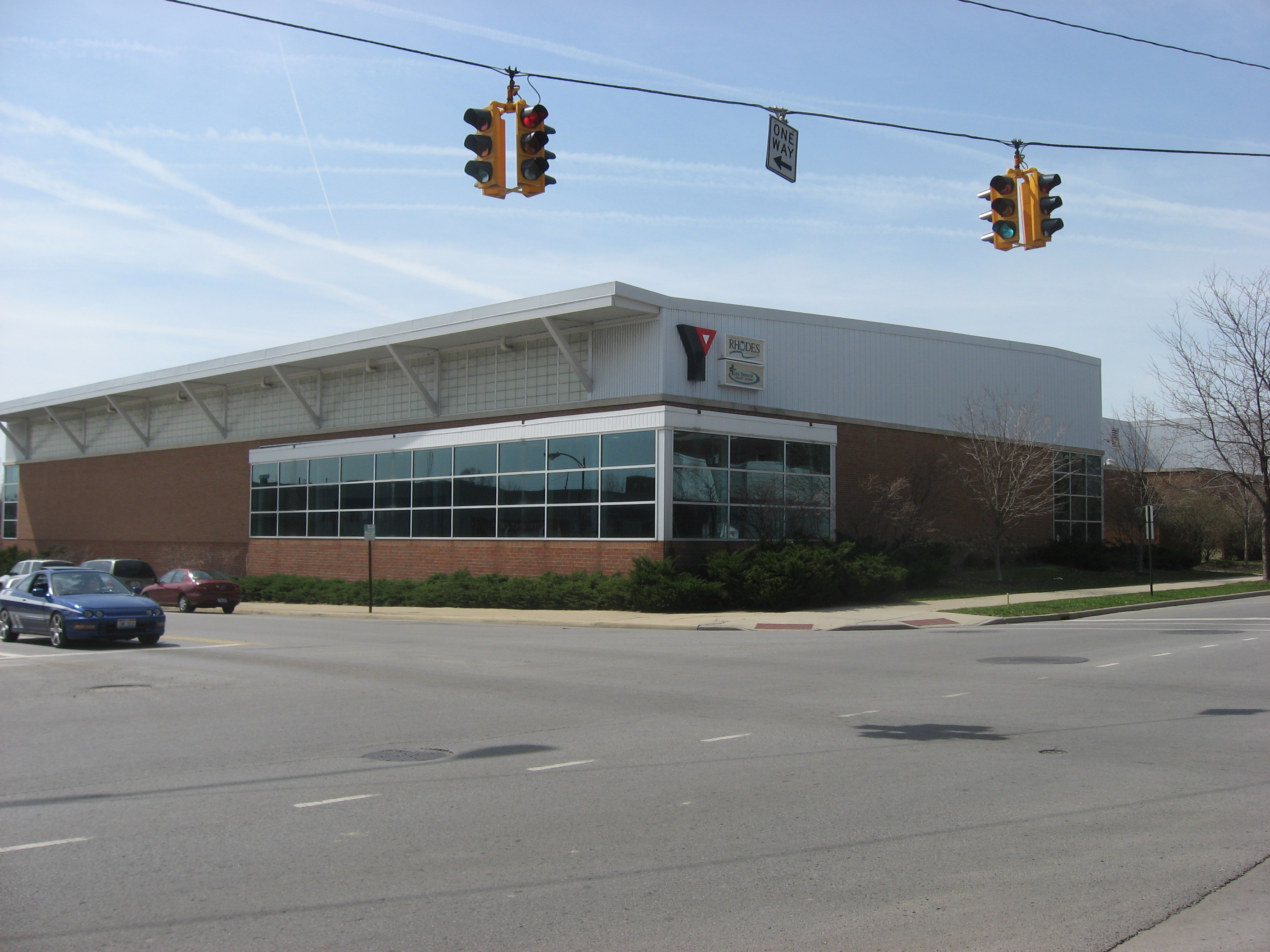 YMCA building on the site of the Adgate Block at 300-306 S. Main Street in Lima, Ohio, United States. Built in 1880, the Adgate Block is listed on the National Register of Historic Places, even though it has been destroyed.